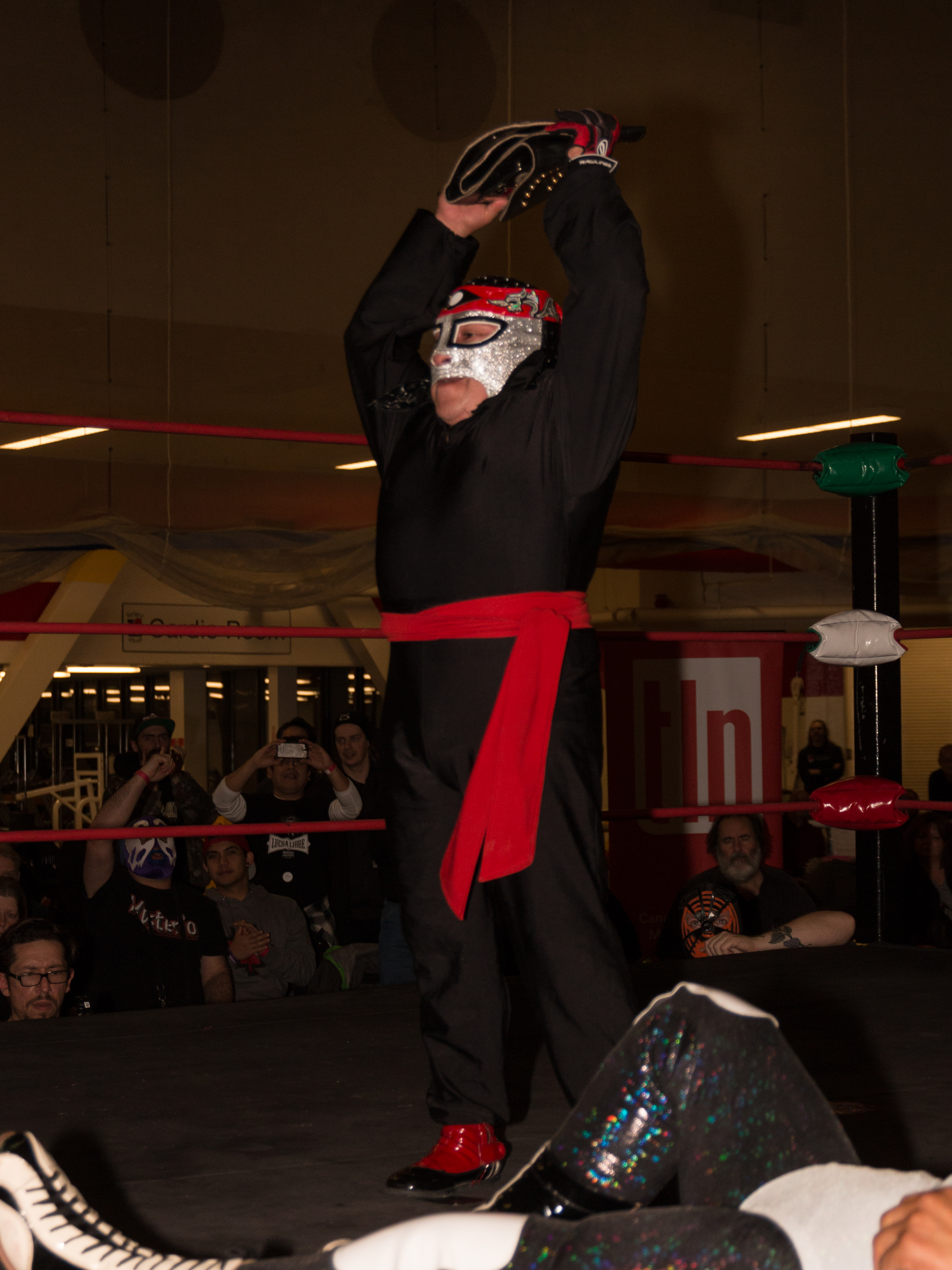 Independent wrestler Octagoncito at a LuchaTO show at Variety Village in Toronto